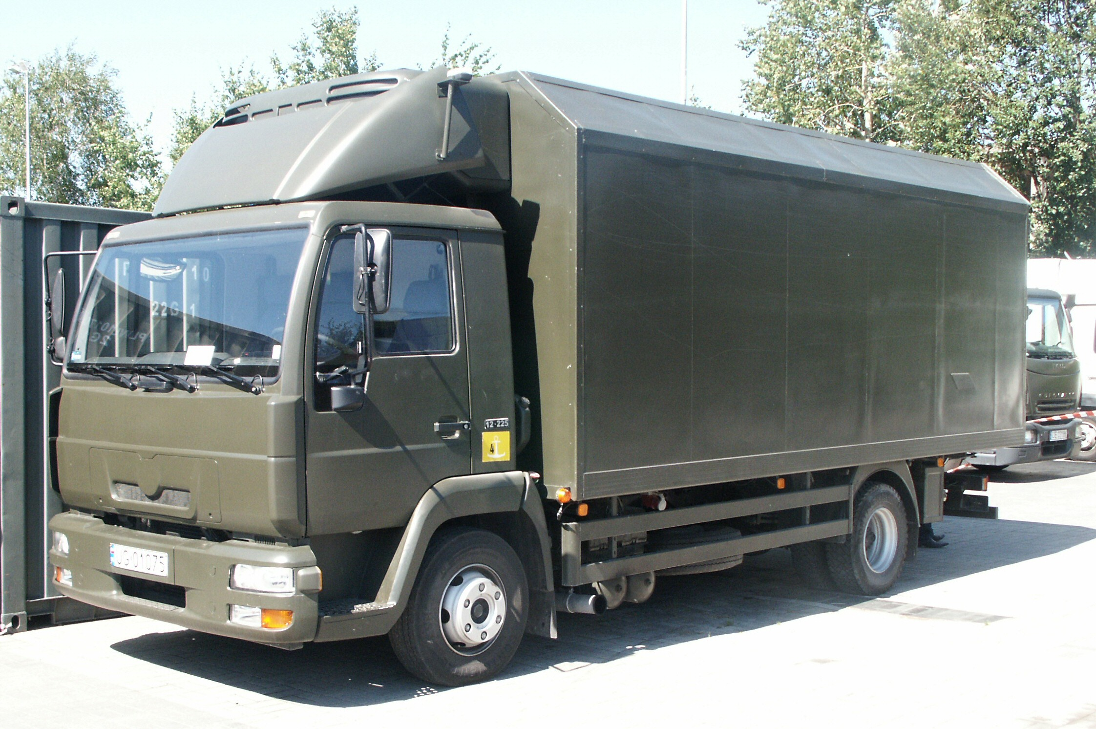 Star 12-225 truck of the Polish Army.